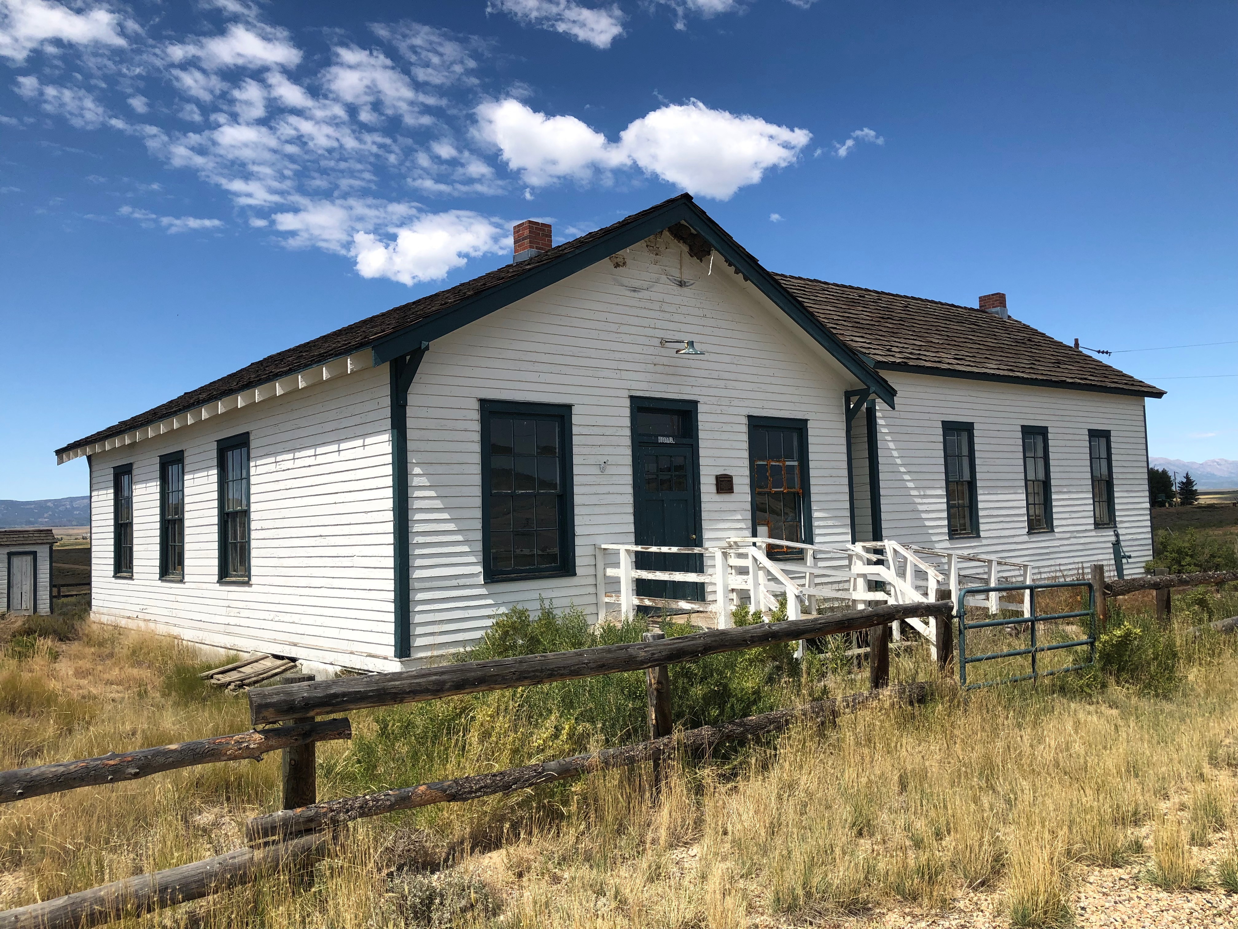 Coalmont School House